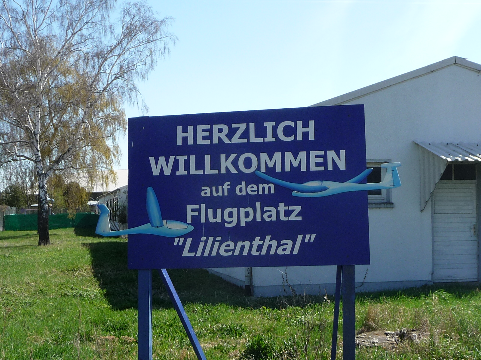 Lachen-Speyerdorf in Rhineland-Palatinate, Germany